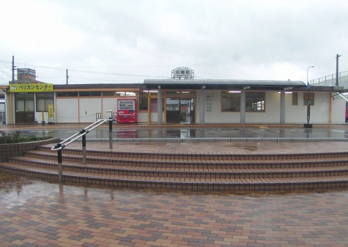 Kawatana Station, Kawatana Town, Nagasaki, Japan